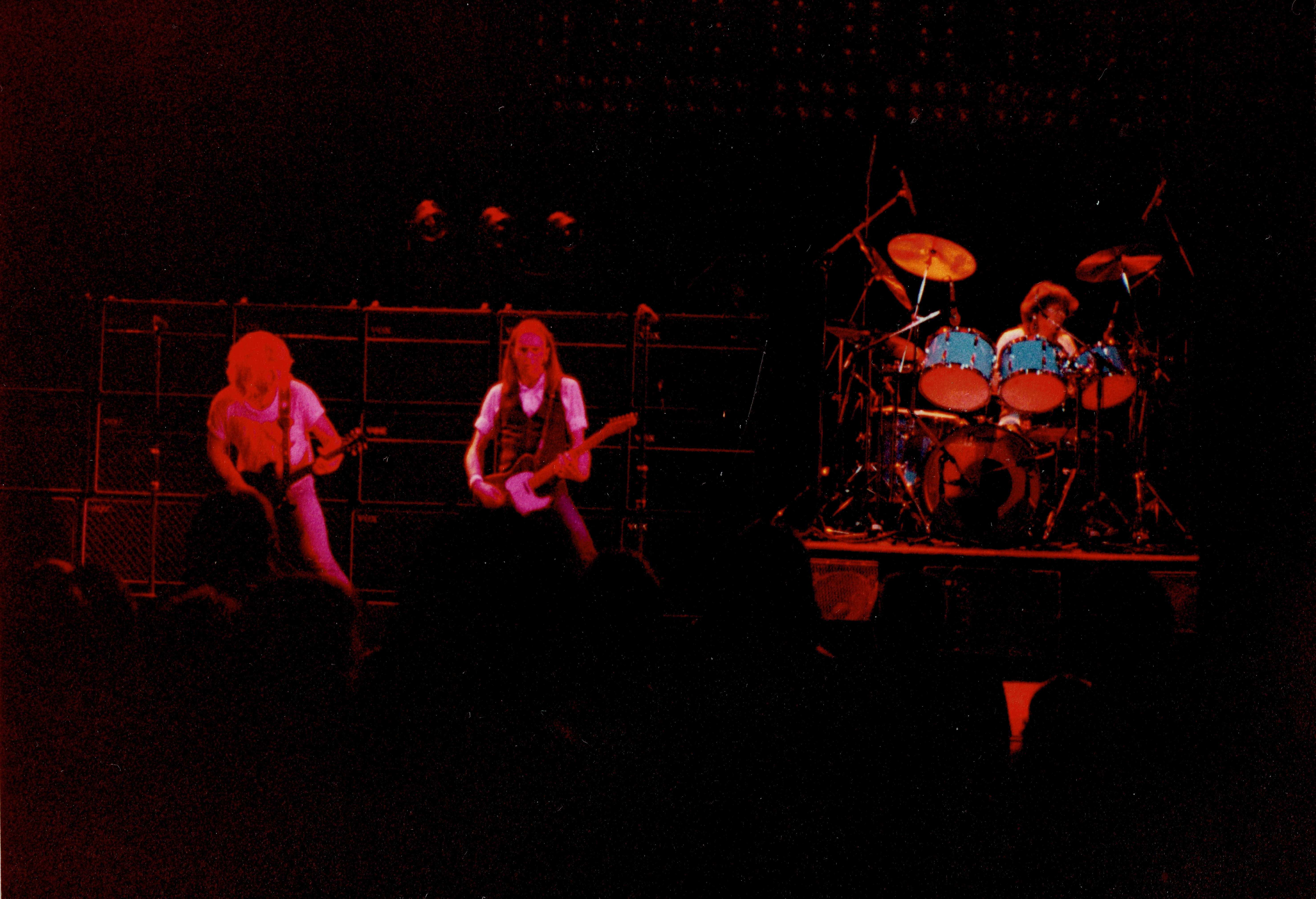 When it was still cool (if it ever was) to like them.